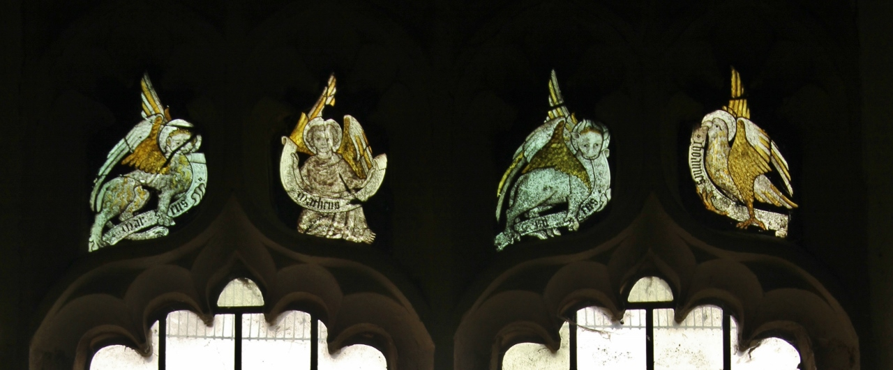 15th-century stained glass in the upper part of the north window of the chancel of St Mary's parish church, Hampton Poyle, Oxfordshire. They depict the symbols of the four Evangelists, from left to right: the winged lion of St Mark, angel of St Matthew, winged bull of St Luke and eagle of St John.